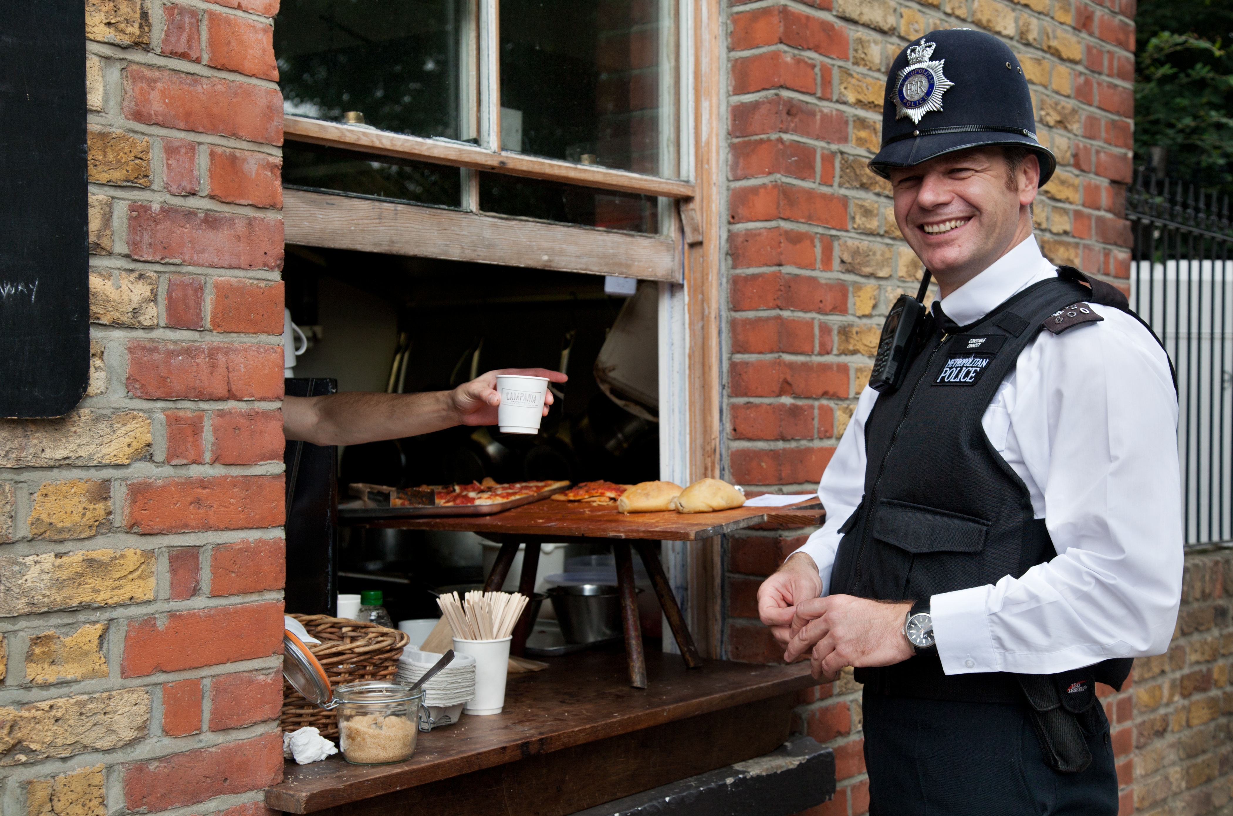 A friendly policeman "Bobby" at lunchtime. Columbia Market, London, UK